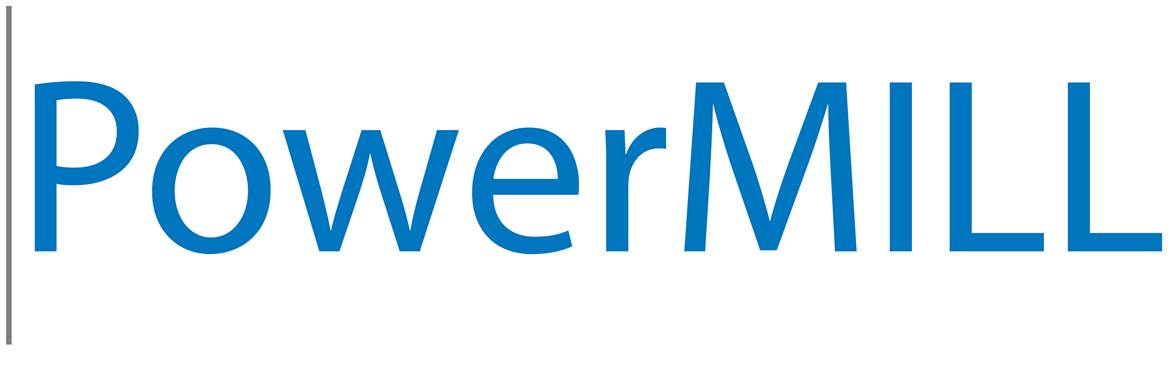 This is the PowerMILL Logo